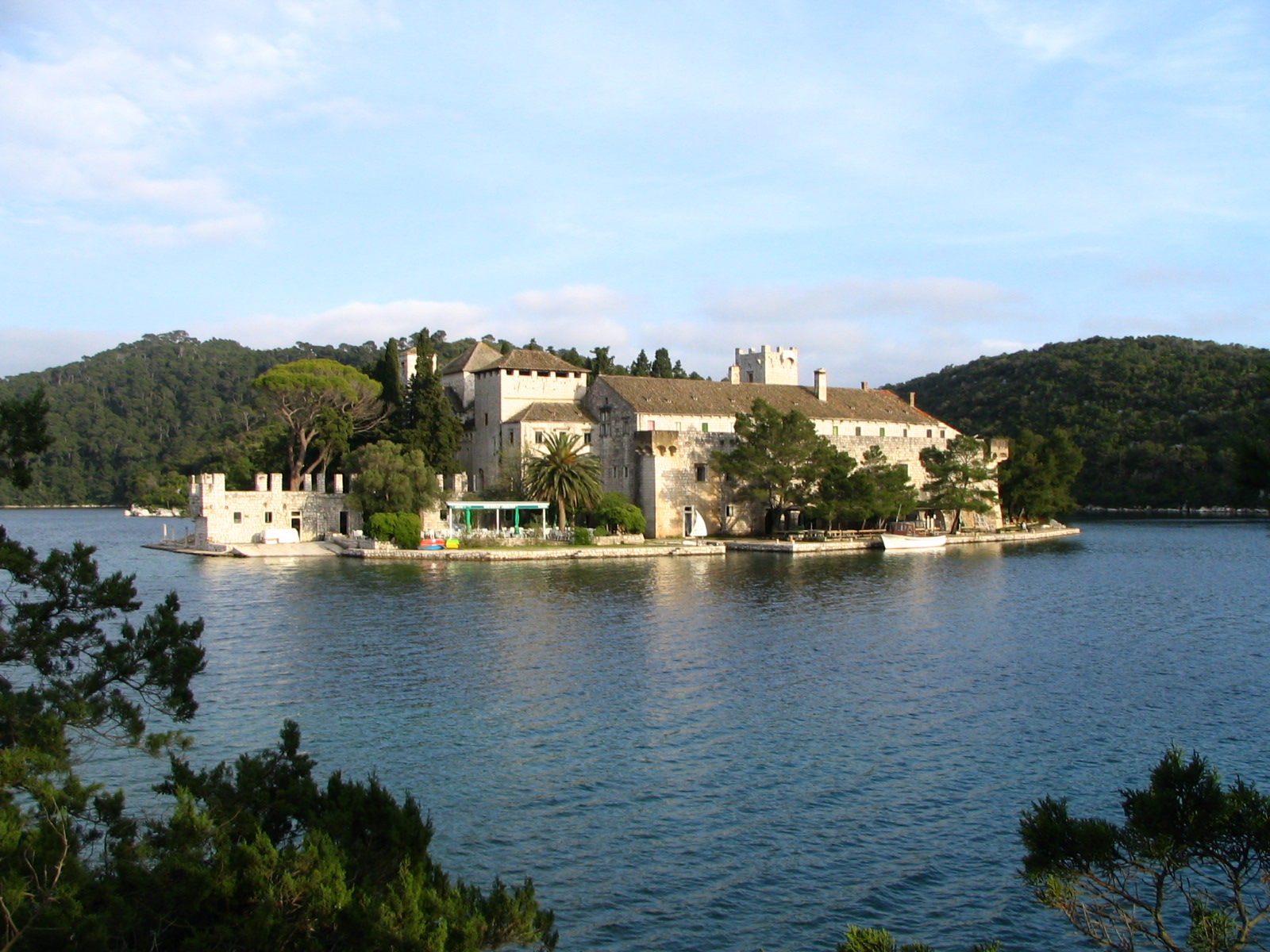 Own photo. Convent on Mlet island (Croatia)